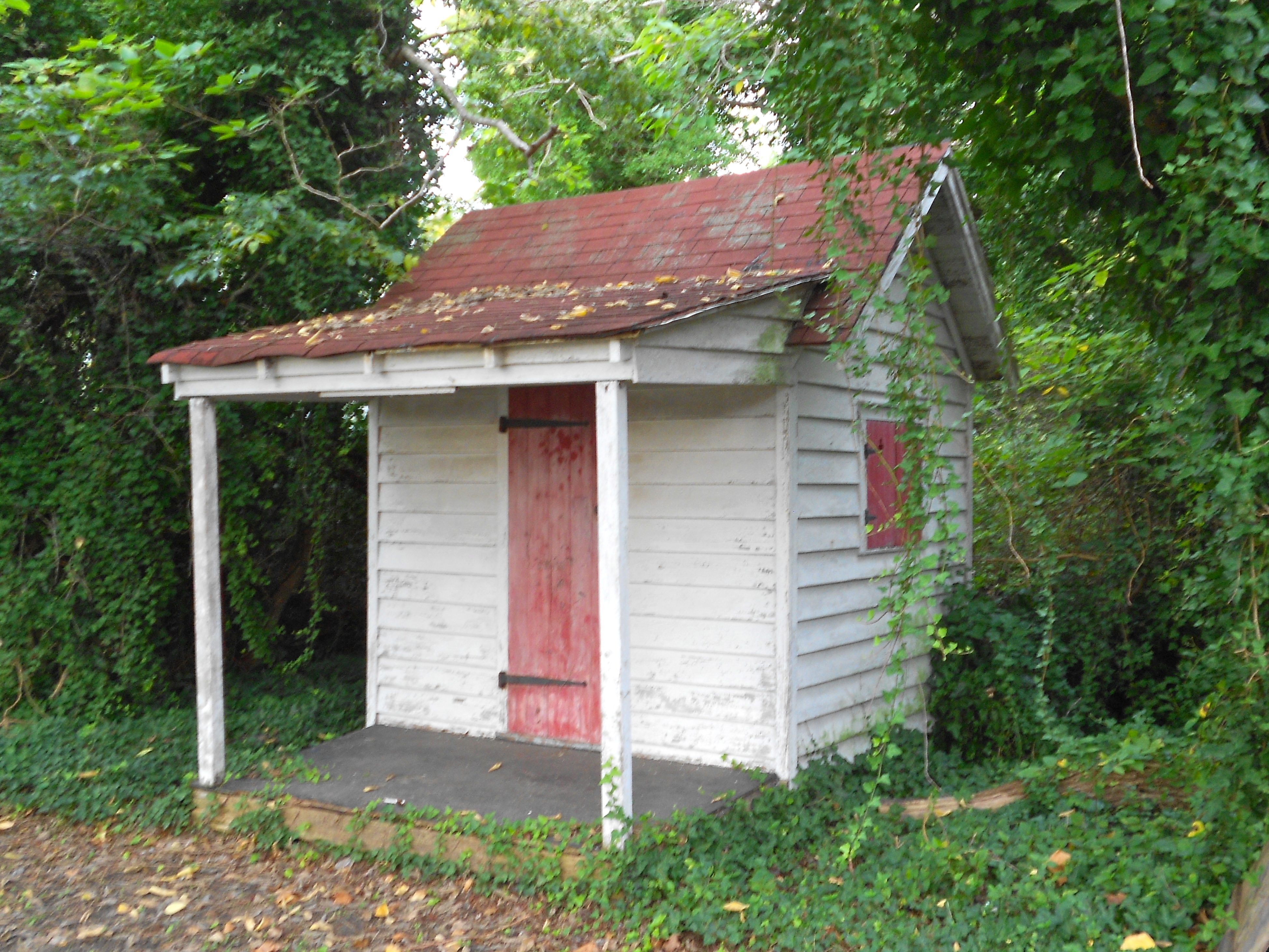 Shed at Judge Nathaniel Foster House listed on the NRHP on August 25, 2014 (#14000516) at 1649 Bayshore Dr. in Villas, Lower Township, Cape May County, New Jersey